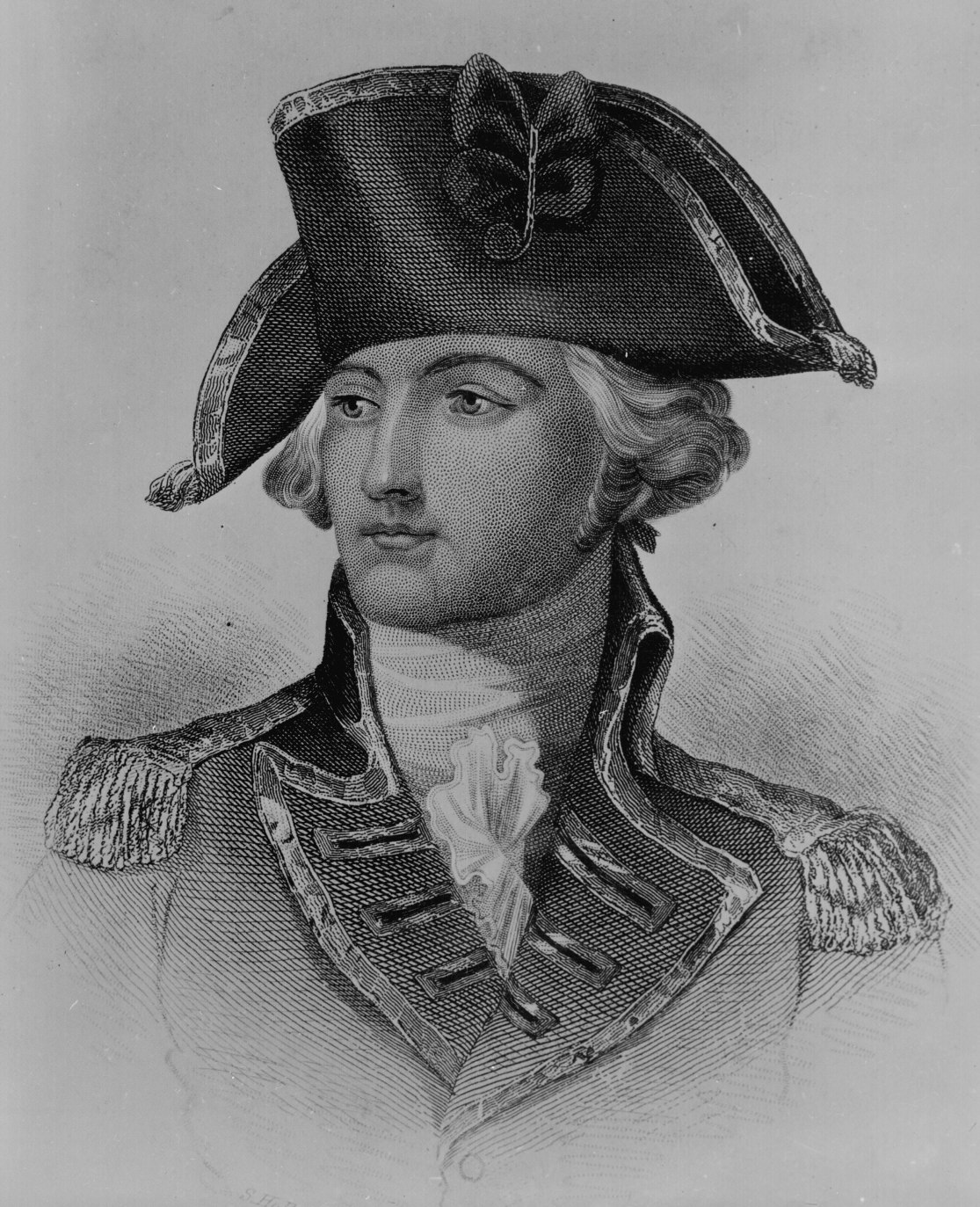 John Burgoyne, British army officer during the American Revolutionary War